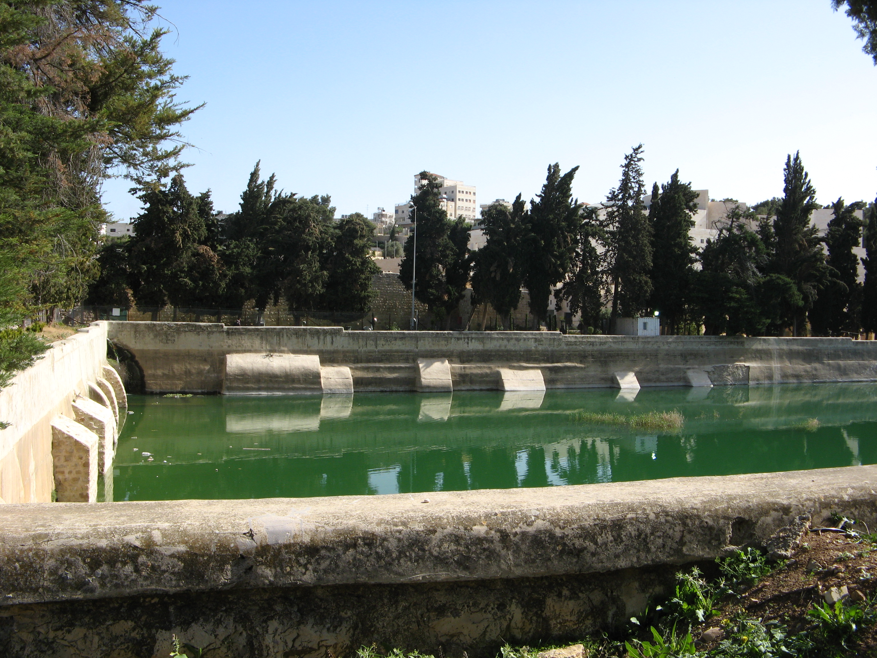 The top "Solomon's Pool" built by king Herod.